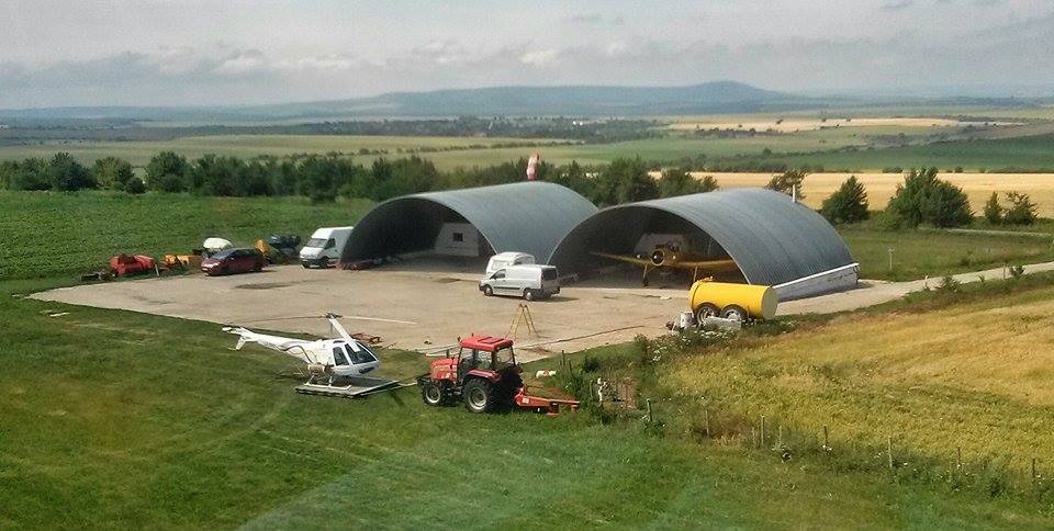 Blagoevo Airport - apron and hangars